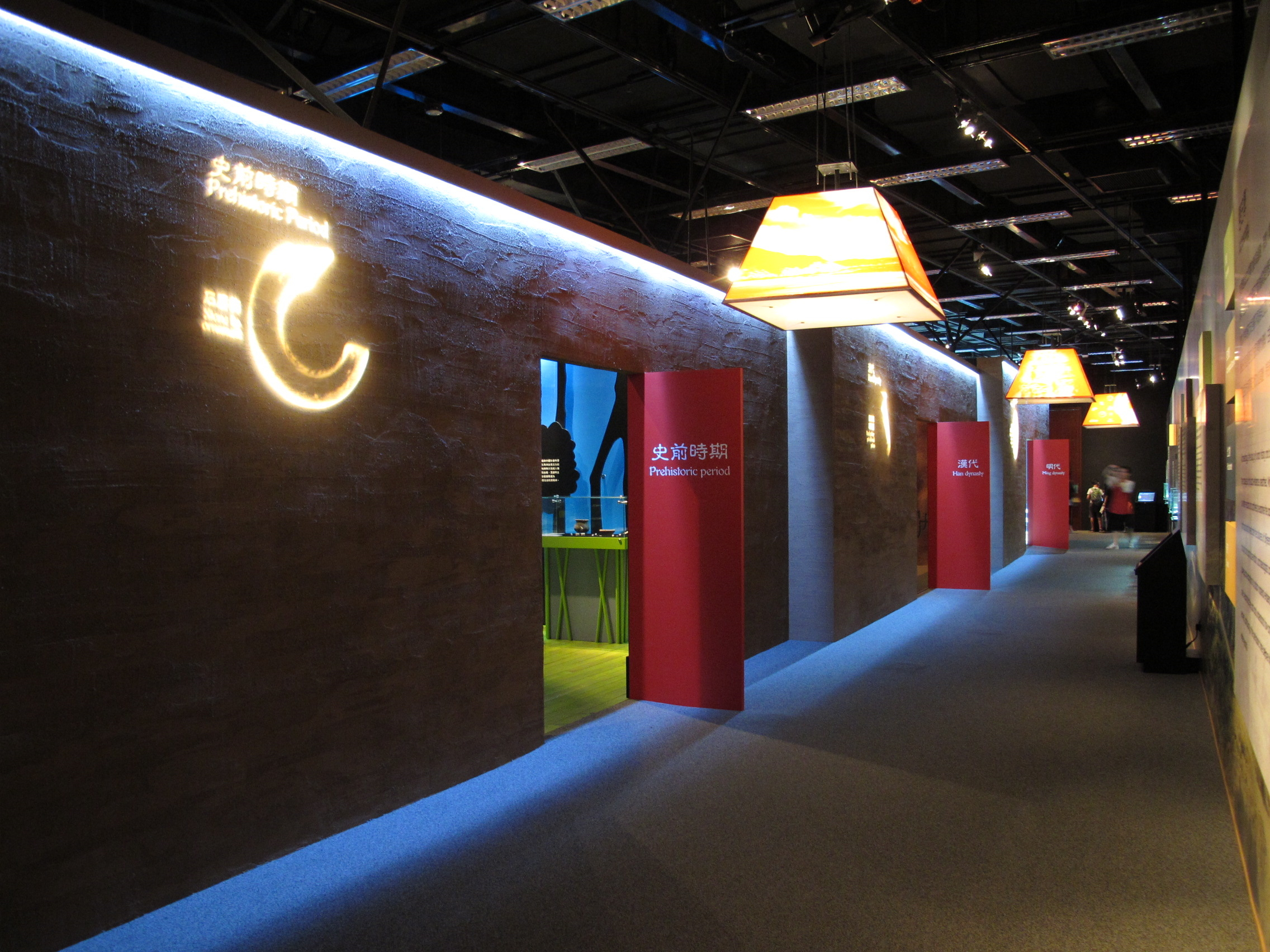 HK Heritage Discovery Centre